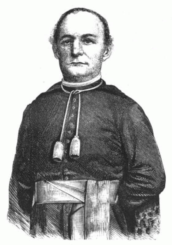 Luka Ilić Oriovčanin (1817–1878), Croatian priest and historian